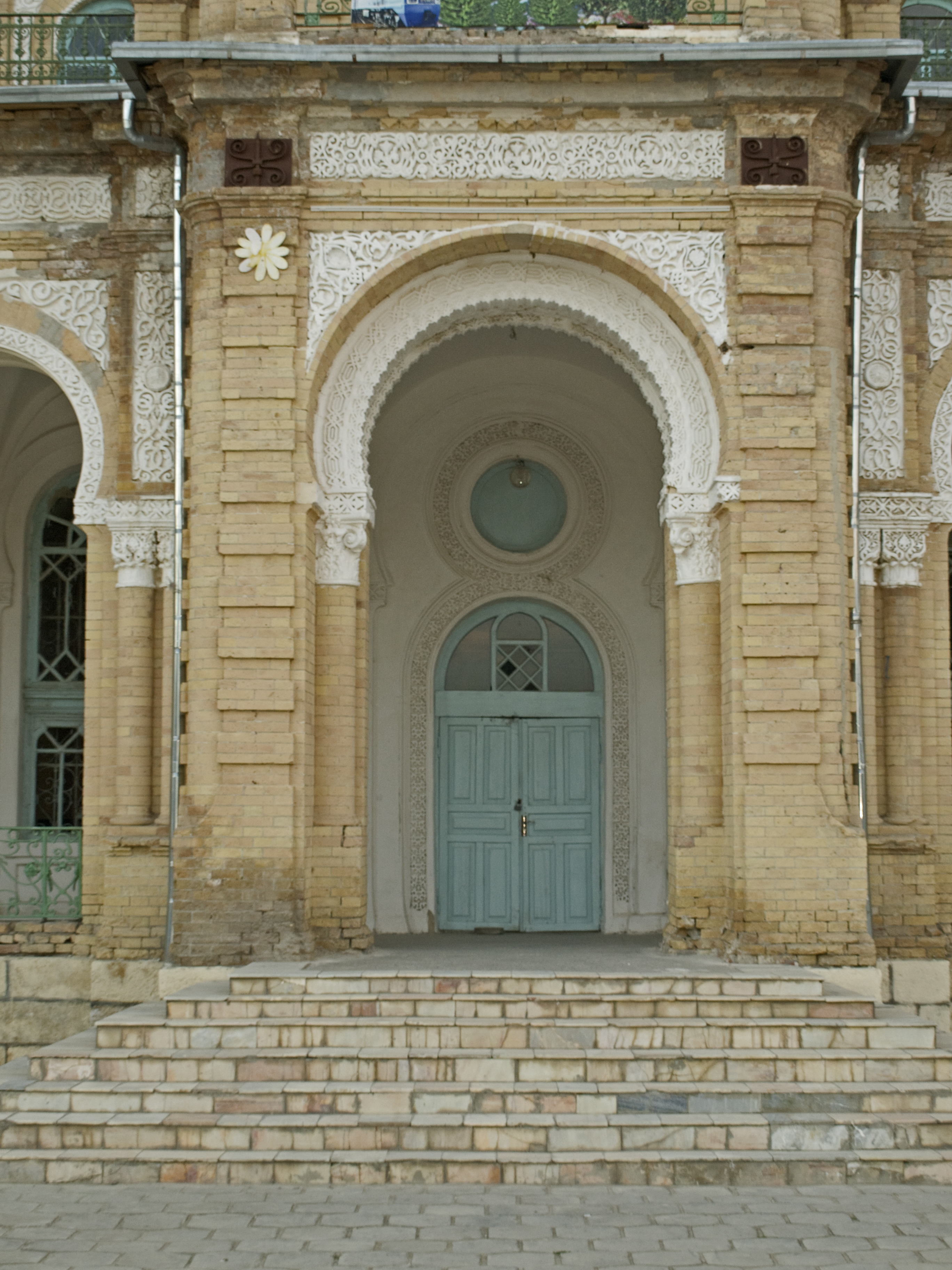 Travel Palace, a door on the southern side, Kogon